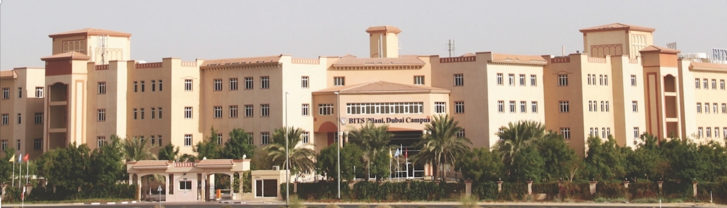 This photo was originally taken from BITS Dubai admission prospectus and is uploaded here to use it for main Wikipedia page of University